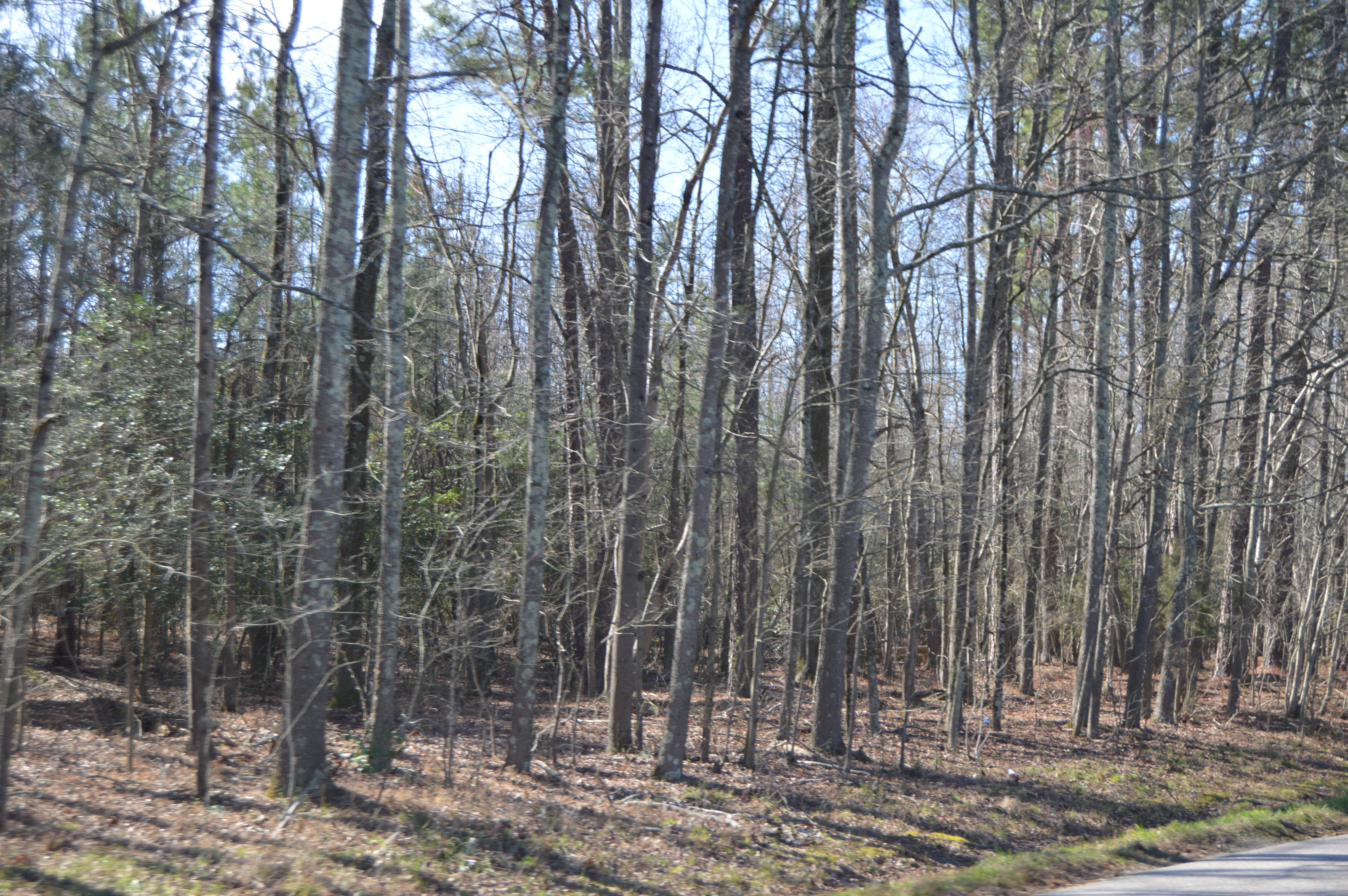 Woods at the site of Dale's Pale, a fortification built in 1613 to protect the newly founded settlement of Bermuda Hundred on the James River. Now located along Bermuda Hundred Road and surrounded by large industrial facilities, Dale's Pale has been declared a historic district and listed on the National Register of Historic Places.